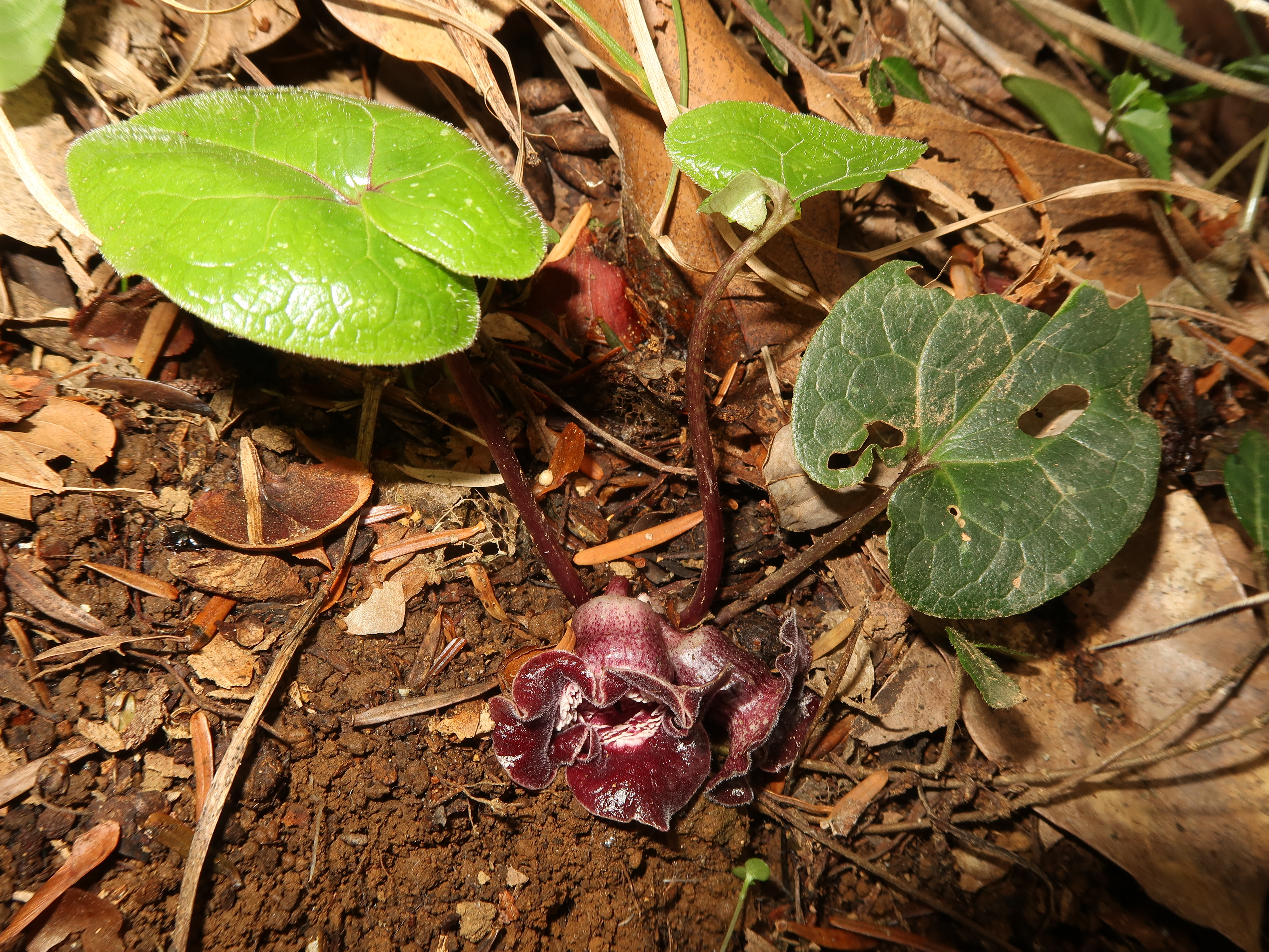 Asarum tamaense, Mount Takao-san, Tokyo pref., Japan